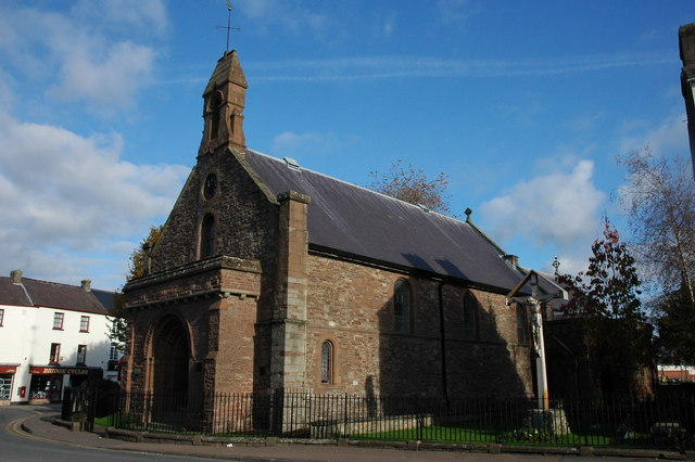 St Thomas the Martyr, Monmouth St Thomas the Martyr church is in Overmonnow beside the River Monnow which flows behind it.